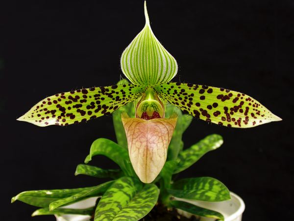 Paphiopedilum